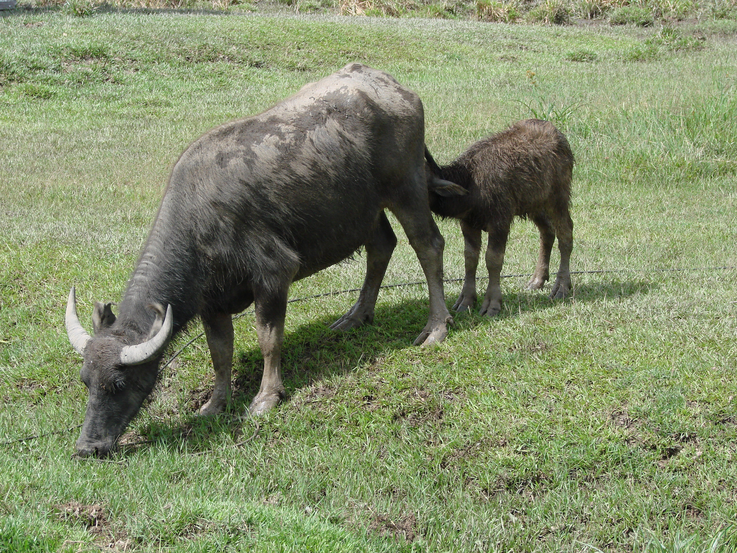 Water buffalo (Bubalus bubalis) cow and suckling calf in Bario (Sarawak, Malaysia) on the island of Borneo